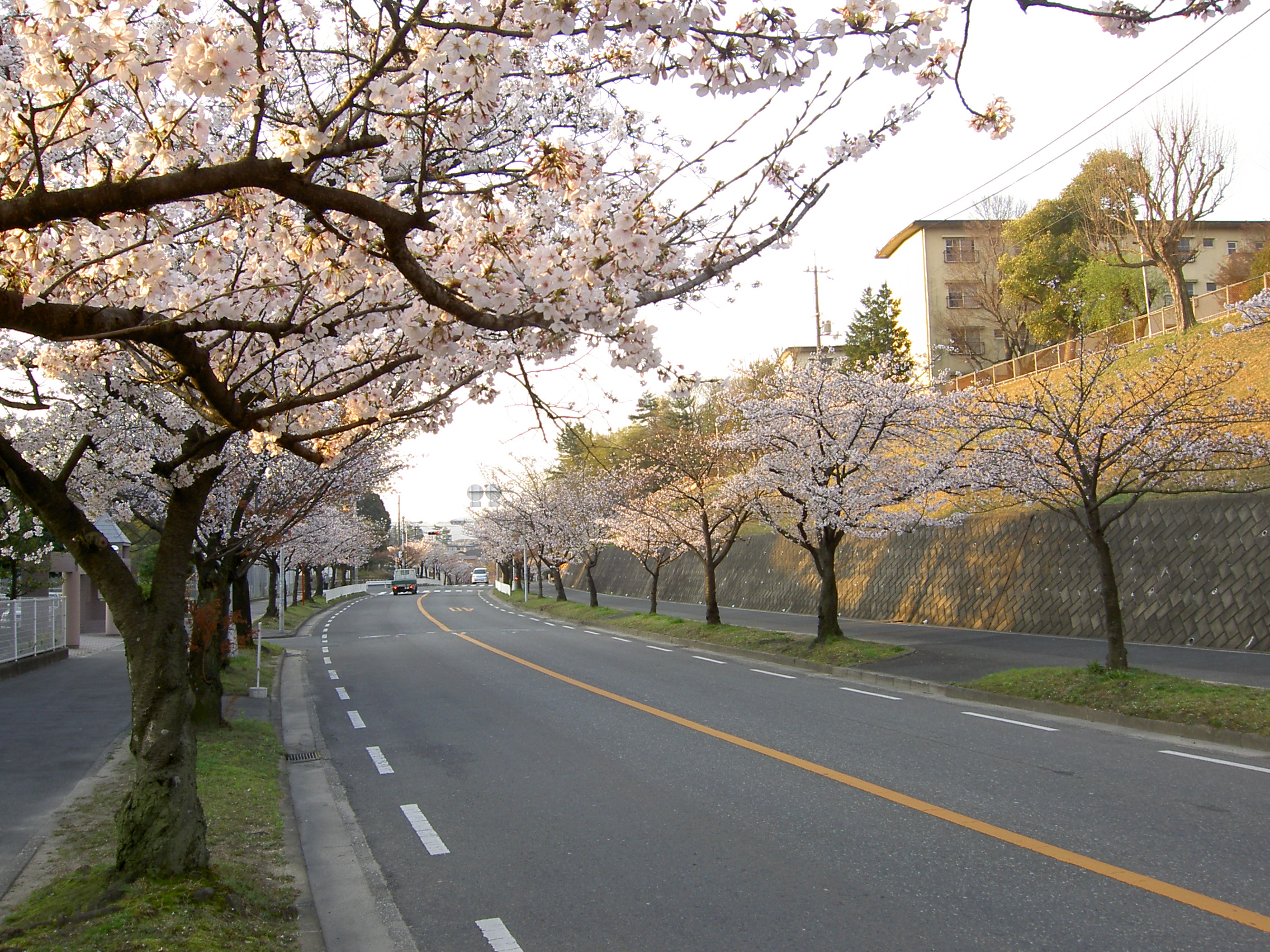 Row of cherry blossom trees in Kori housing complex. Hirakata-shi, Osaka Japan.